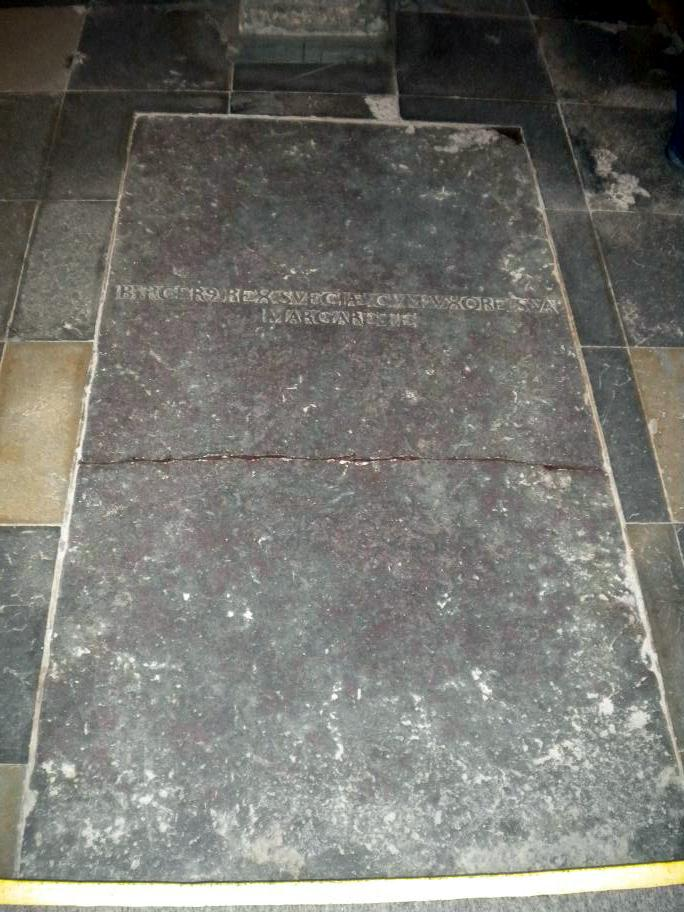 Grave of King Birger and Queen Margaret of Sweden at St. Benedict’s ChurchPlace: Ringsted, Denmark